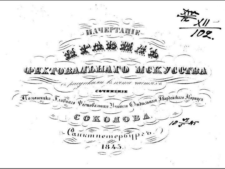 Обложка книги Сокjлова Николая "Начертание правил фехтовального искусства для армии"